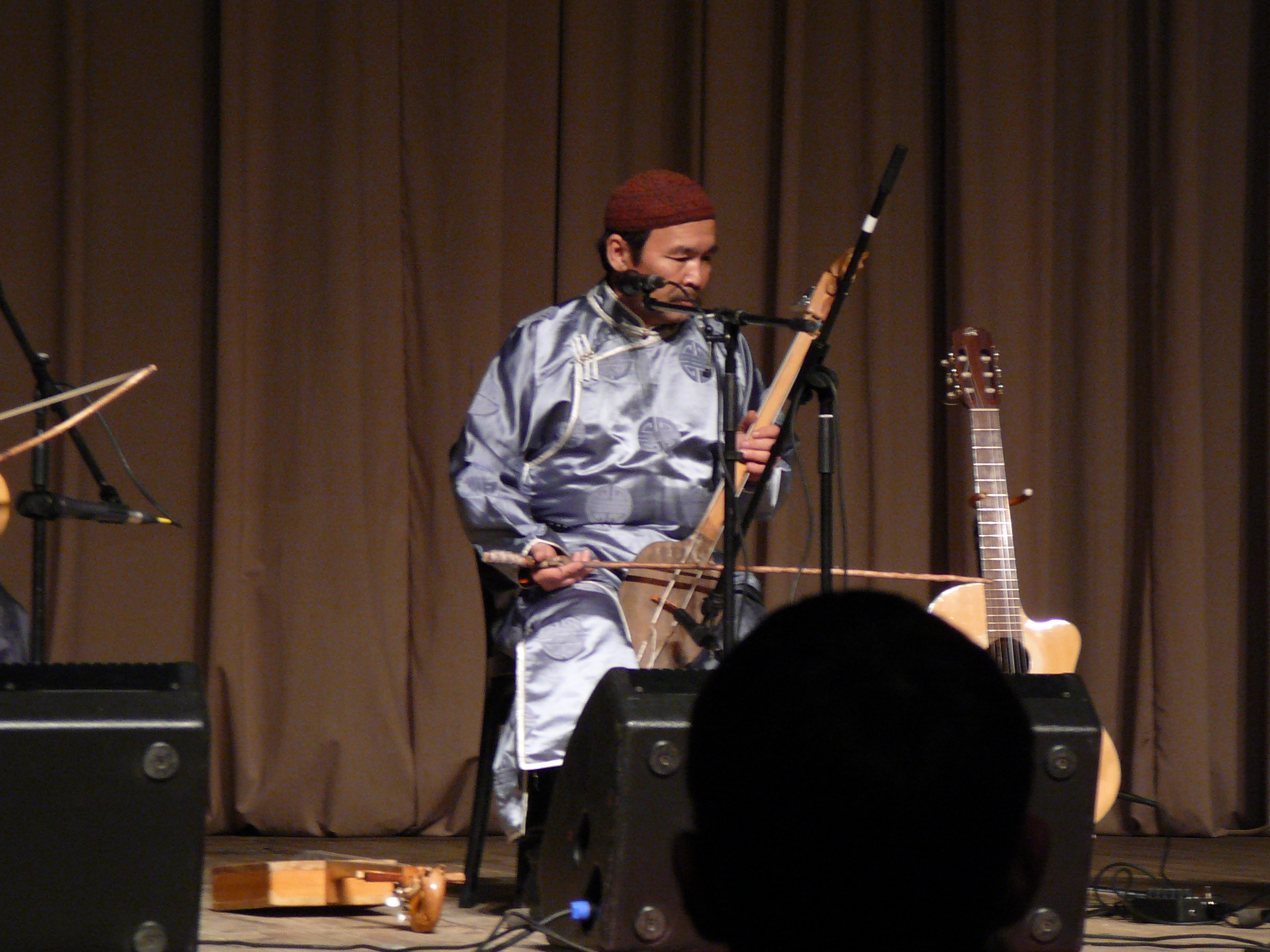 Kaigal-ool Khovalyg, a member of the musical group "Huun-Huur-Tu" of Tuva, Russia